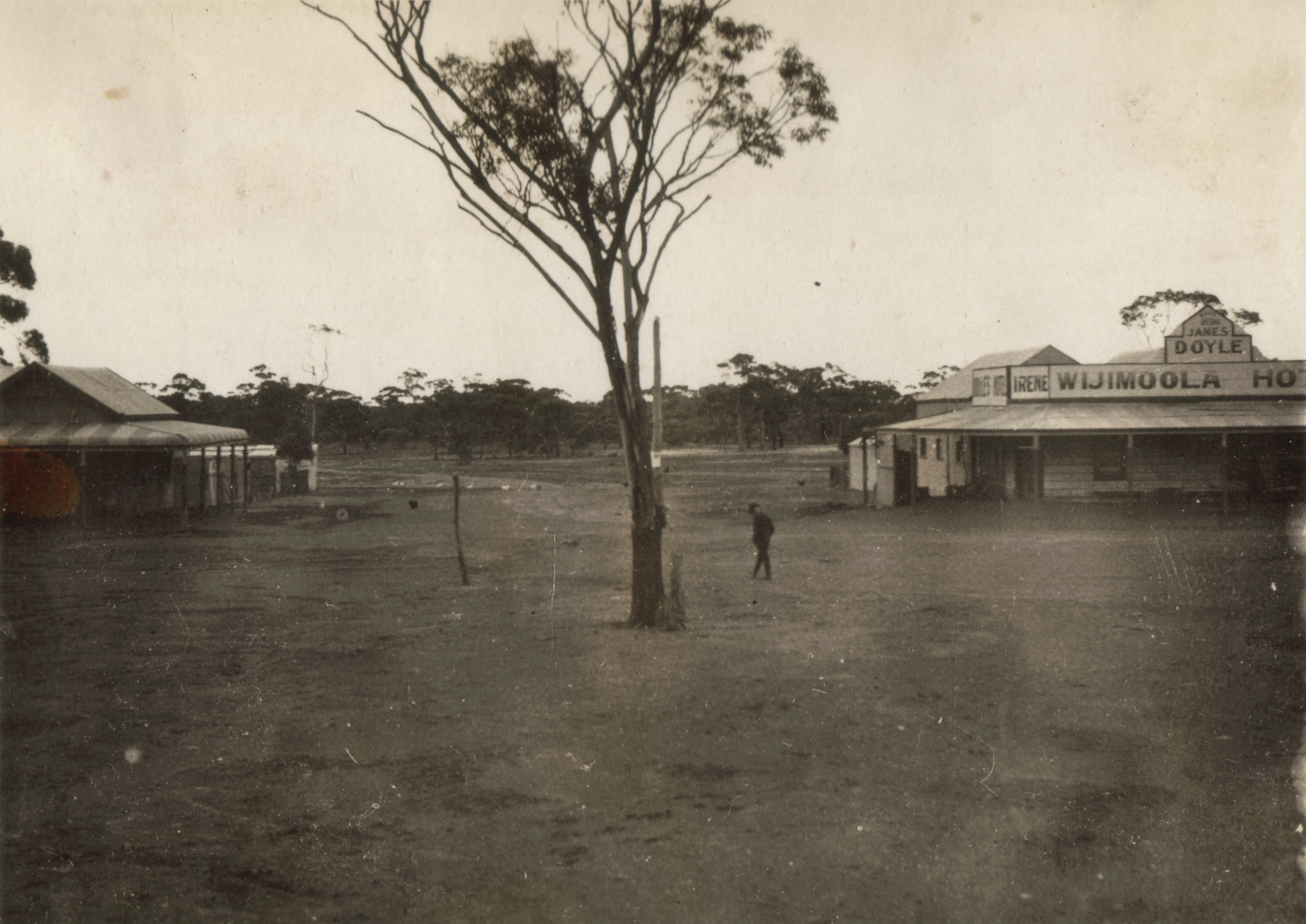 Widgiemooltha, Western Australia, 28 September 1930